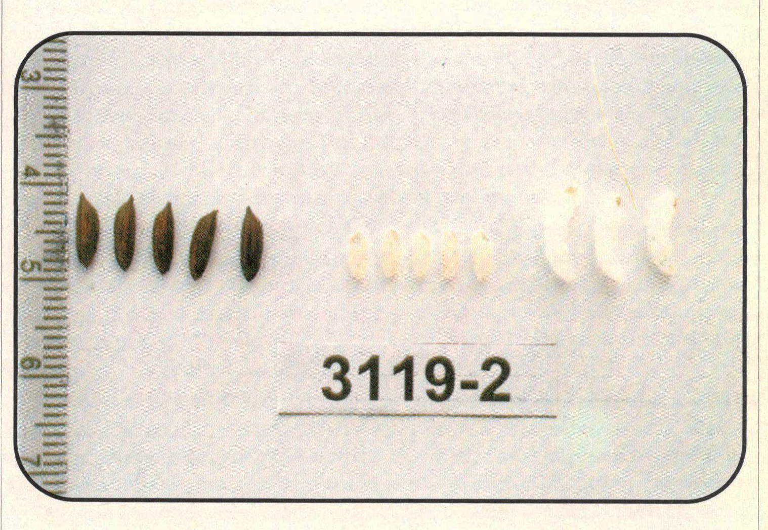 Comparision of grain length of cooked and uncooked kernel of Kalanamak rice